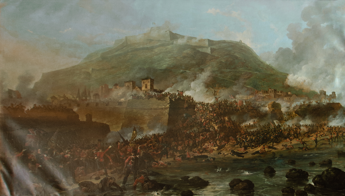 Denis Dighton (1792-1827) painting "The Storming of San Sebastian" in National Trust for Scotland Collection.